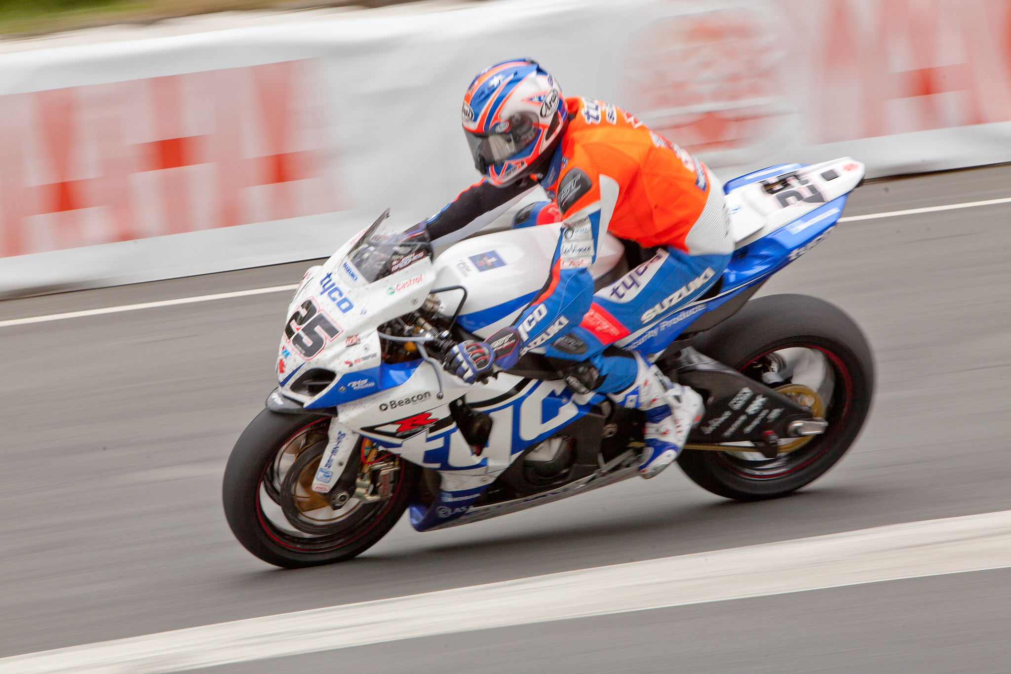 Josh Brookes Isle of Man TT - Dainese Superbike TT